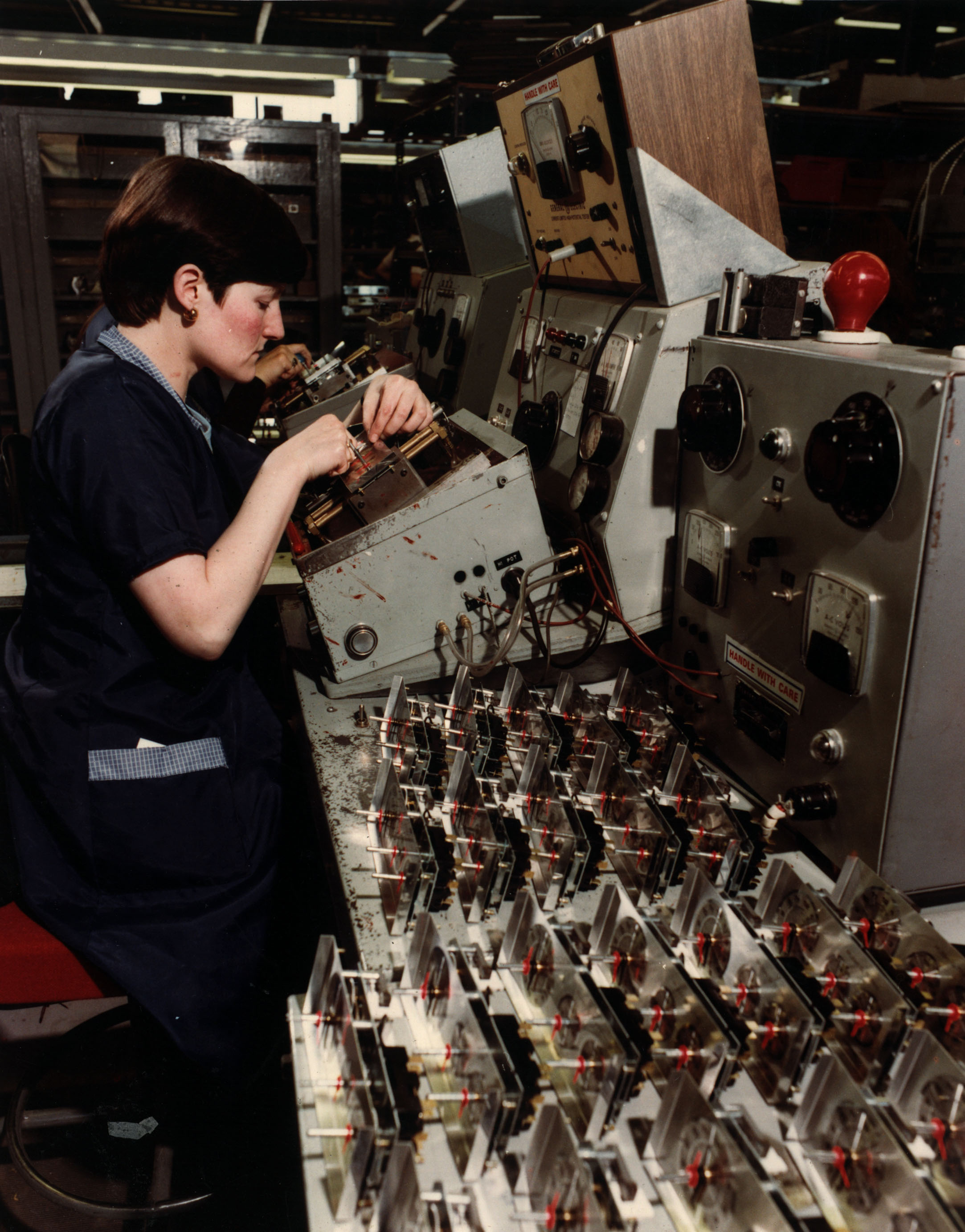 This is a photograph of a Woman working at the Philips Factory in Washington, UK. The photograph was taken at some point in the 1970s'. Reference: 5417/353/1 This collection of images has been assembled in support of the Washington Heritage Festival 2013. The celebration of Washington brings together a variety of different themes. Washington is a Town in the City of Sunderland, Tyne & Wear. It is traditionally associated with Coal Industry, and notably known as the home of the Washington Family, ancestors of the First President of the United States George Washington. However, in 1964 Washington was designated a New Town and drastically changed. With the introduction of new industry such as the Nissan Car Factory Washington experienced a huge redevelopment in both its economy and community. These Photographs are taken from the Records of the Washington Development Corporation; held at Tyne & Wear Archives. The records document this change in industry, landscape and community in Washington between 1964 & 1988, and consist of many photographs. For more information on the Washington Heritage Festival, 21st September 2013 please click (Copyright) These images are Crown Copyright. We're happy for you to share these digital images within the spirit of The Commons. Please cite 'Tyne & Wear Archives & Museums' when reusing. Certain restrictions on high quality reproductions and commercial use of the original physical version apply though; if you're unsure please